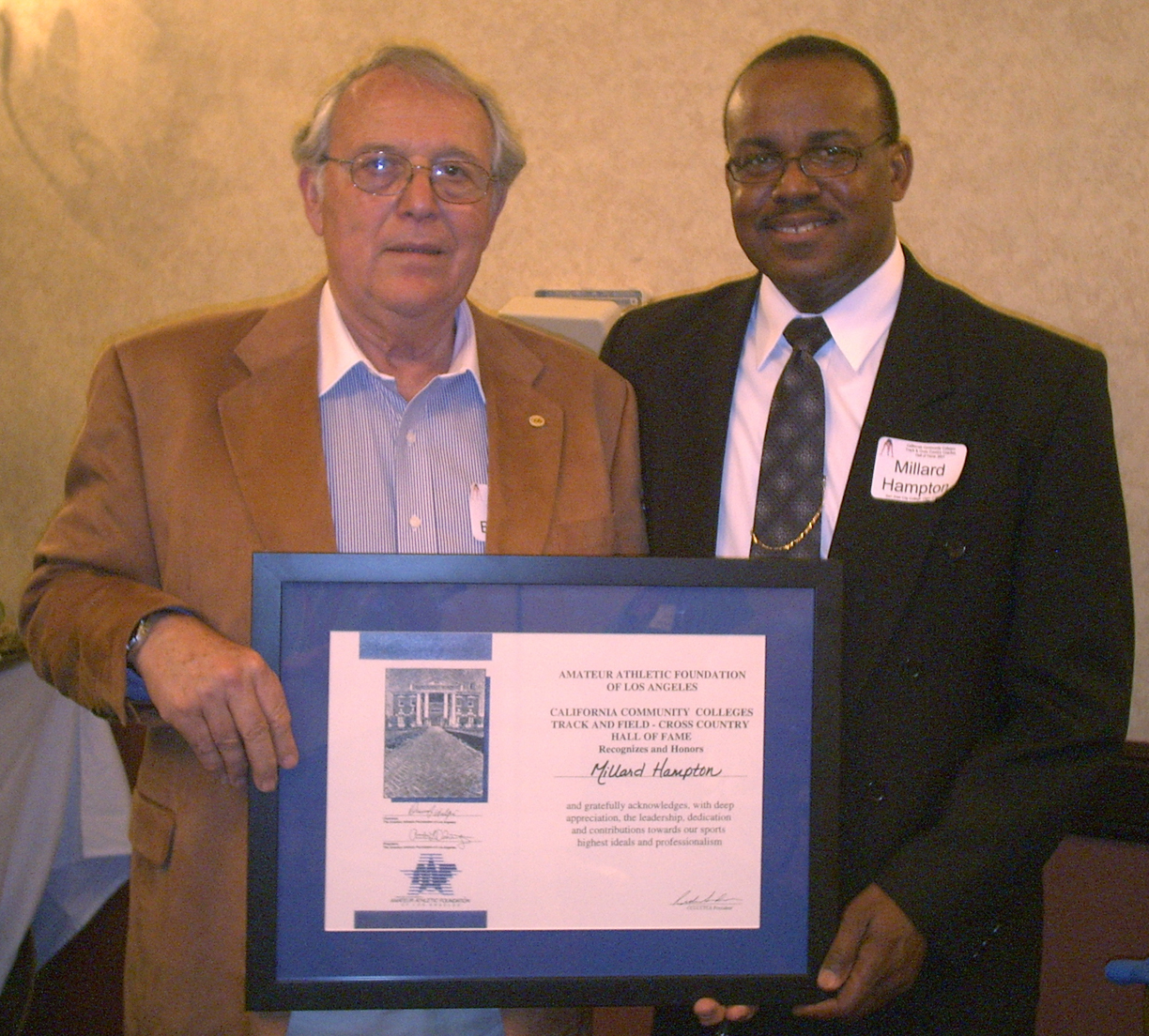 Millard Hampton with Coach Bert Bonanno, 2006 at the California Community Colleges Track and Field-Cross Country Hall of Fame.